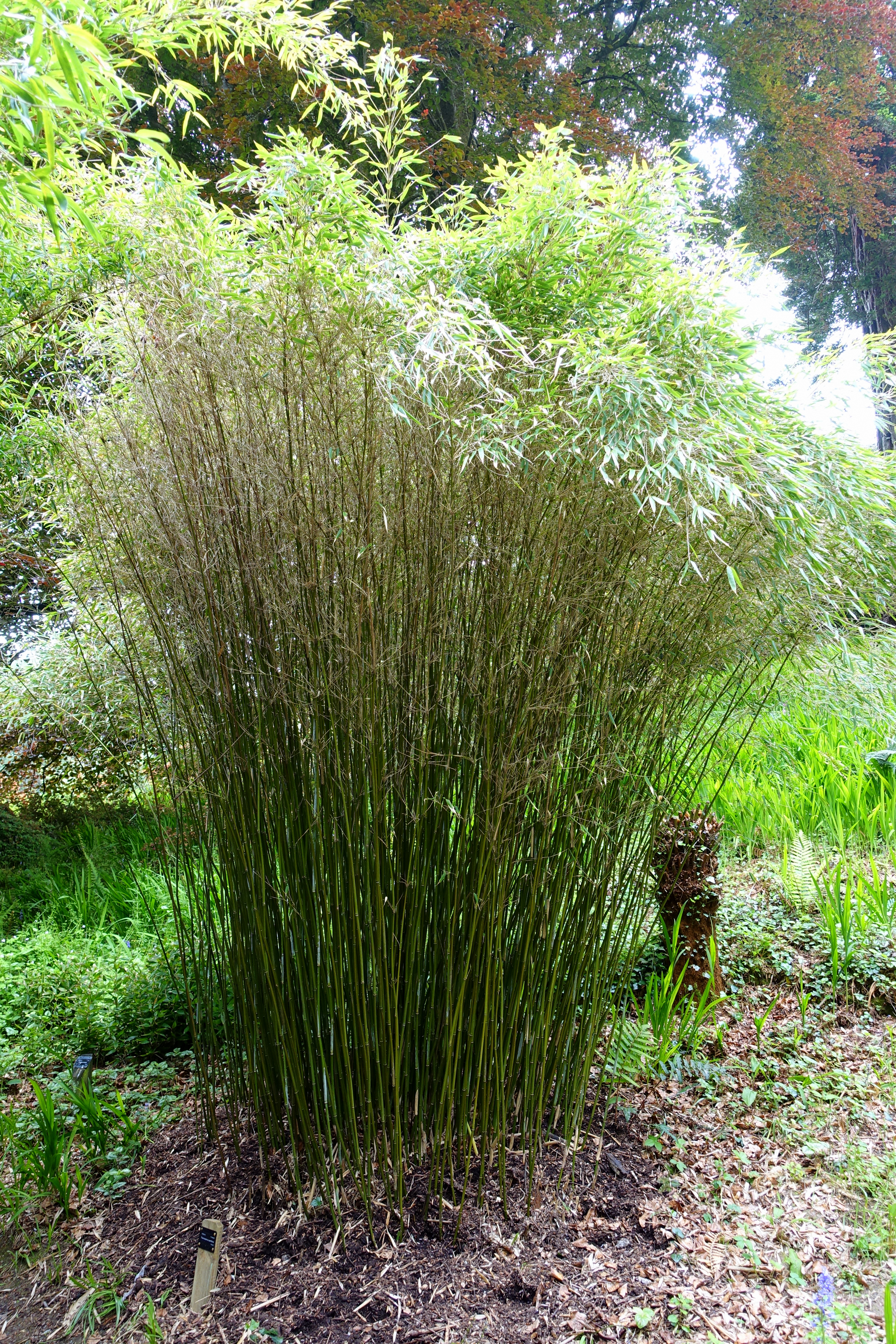 Horticultural specimen in Trebah Garden - Cornwall, England.